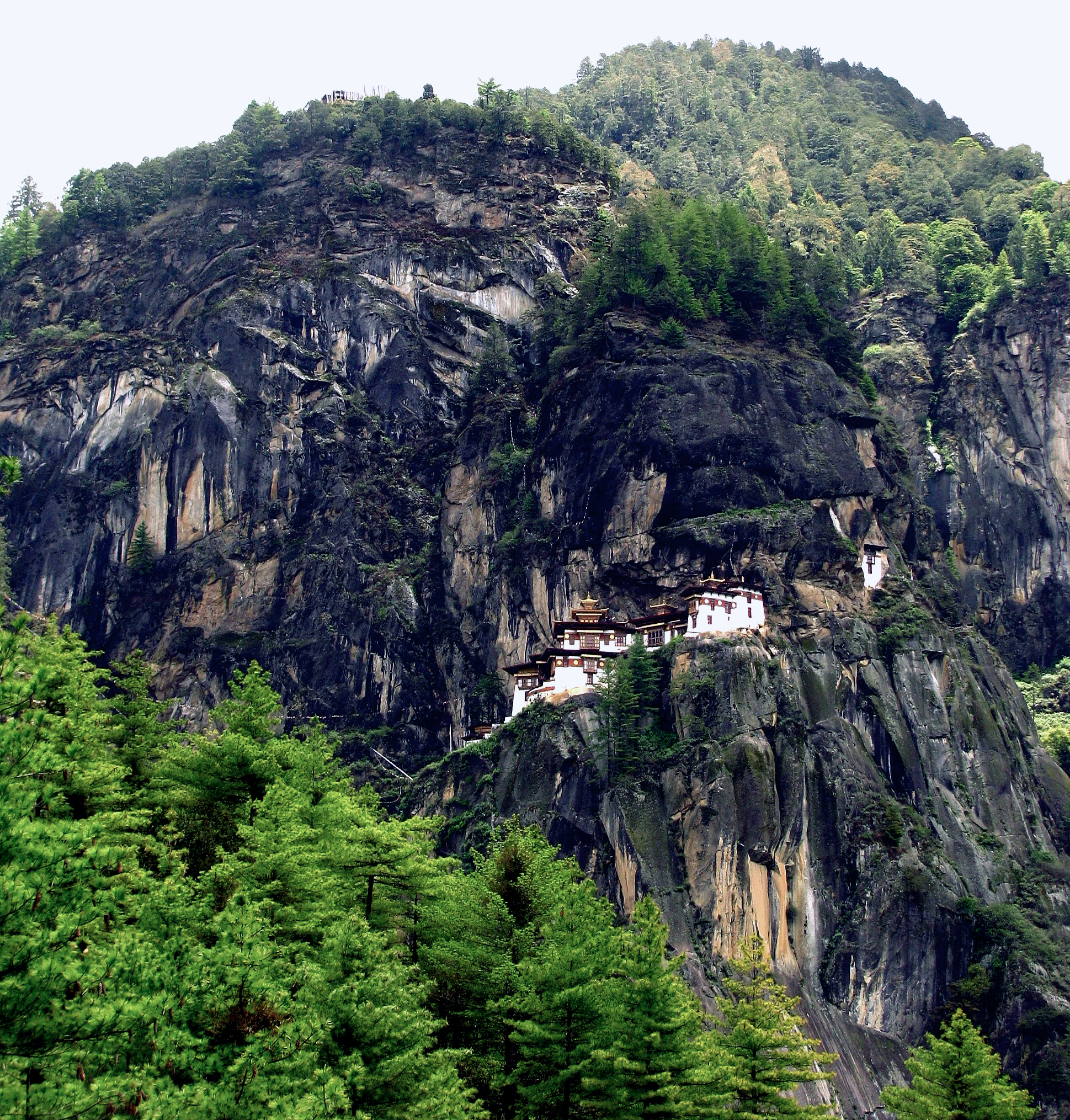 Taktshang monastery, Bhutan. Trees in foreground are Pinus wallichiana.